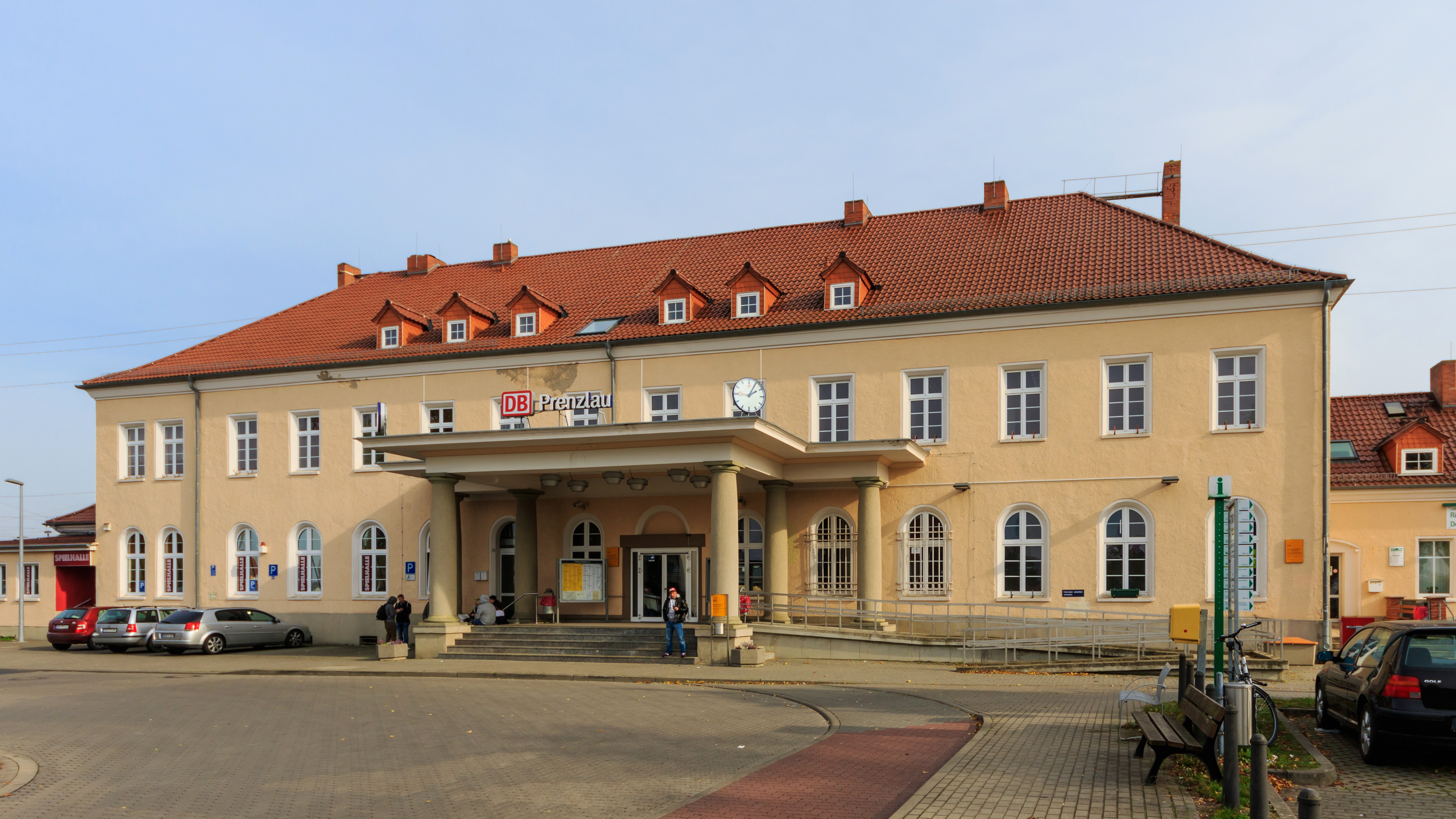 Train station in Prenzlau, Brandenburg, Germany